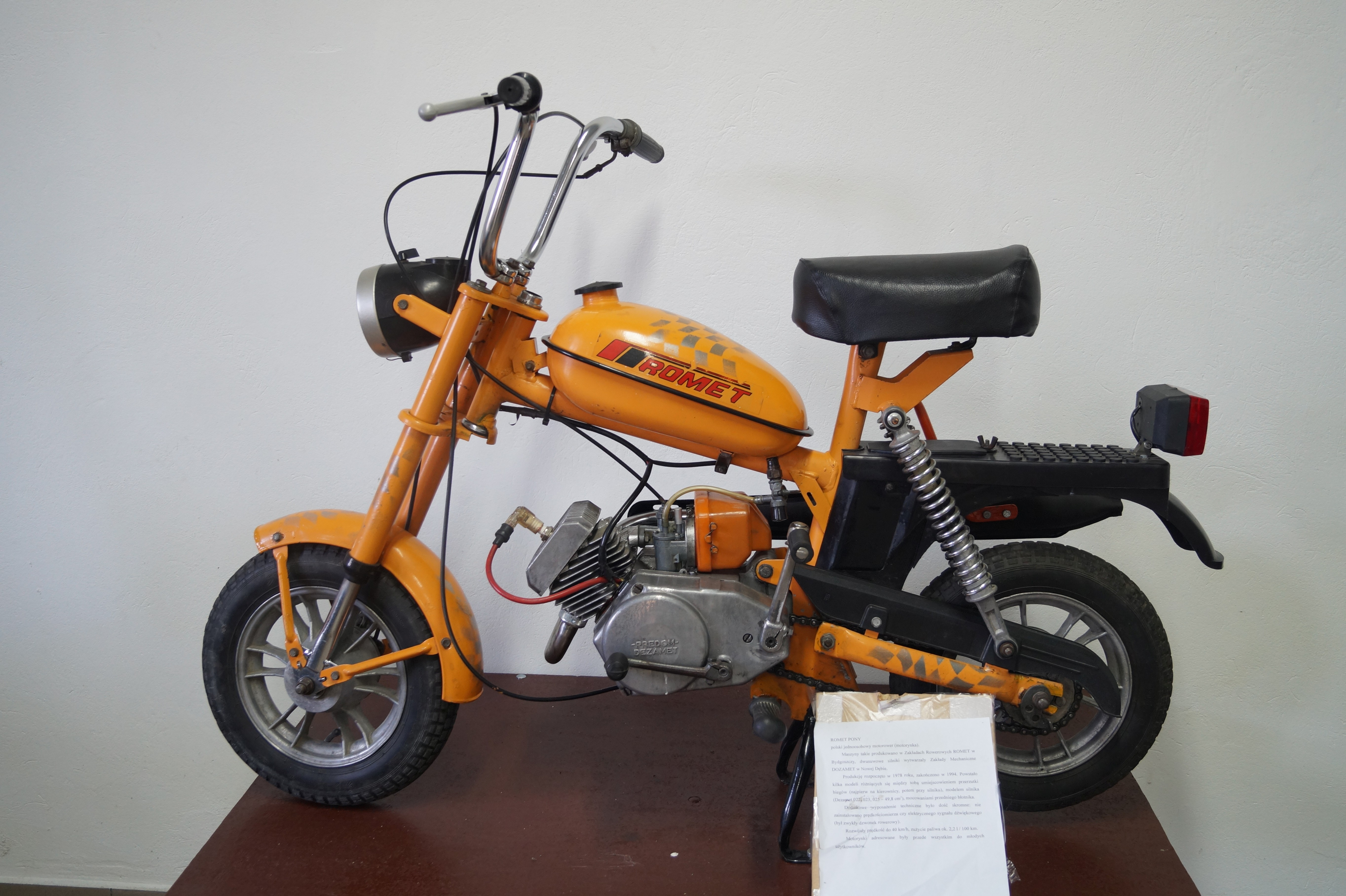 The making of this document was supported by Wikimedia Polska Association, within Wikigrant no. WG 2016-18. English | polski | +/− Romet Pony (motorynka) w Muzeum w Chlewiskach